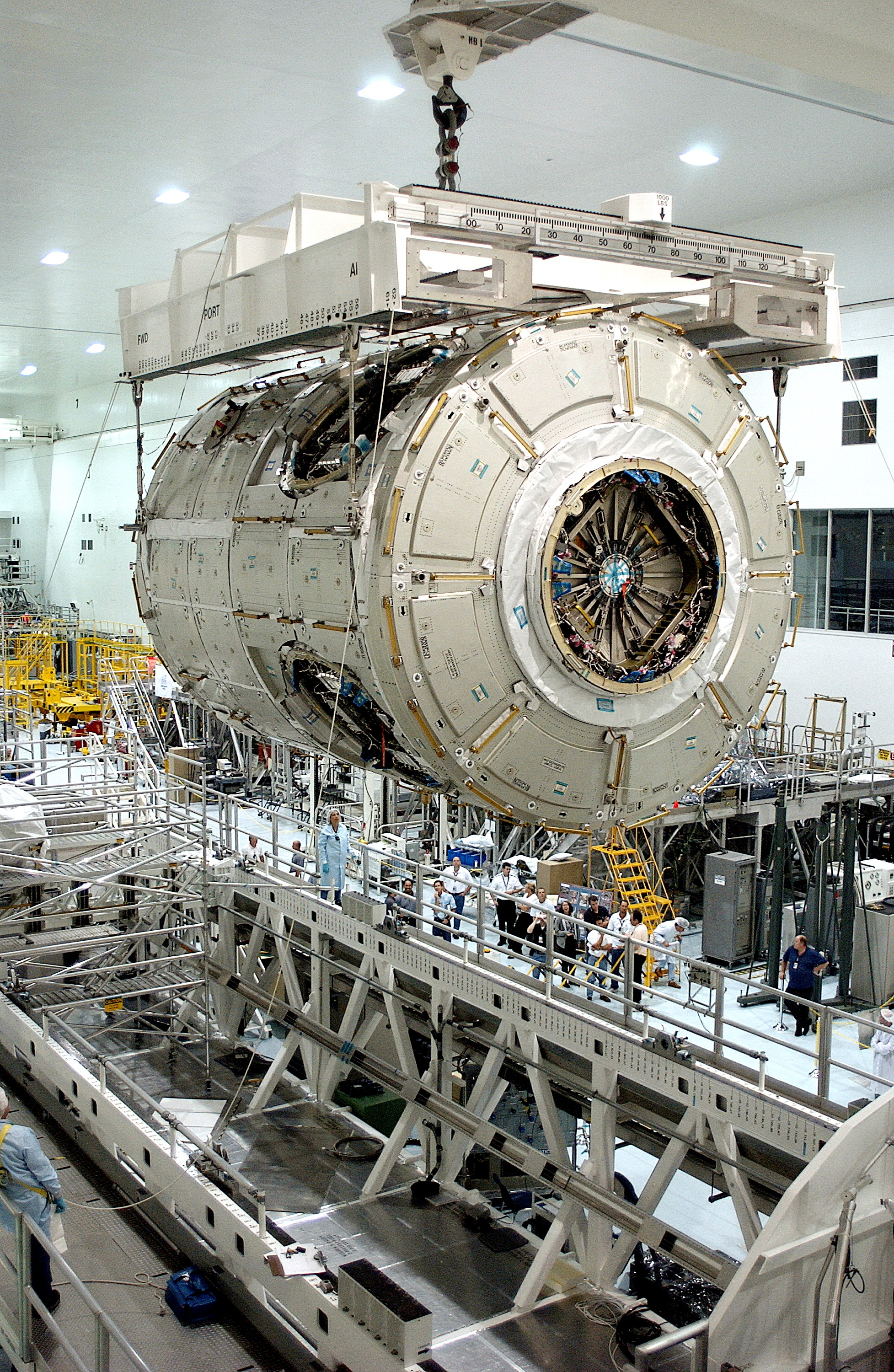 The U.S. Node 2 moves toward a workstand in the Space Station Processing Facility. The second of three connecting modules on the International Space Station, the Italian-built Node 2 attaches to the end of the U.S. Lab and provides attach locations for the Japanese laboratory, European laboratory, and, later, Multipurpose Logistics Modules. It will provide the primary docking location for the Shuttle when a pressurized mating adapter is attached to Node 2. Installation of the module will complete the U.S. Core of the ISS. Node 2 is the designated payload for mission STS-120. No orbiter or launch date has been determined yet.